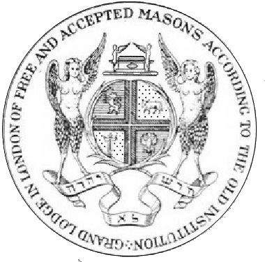 One of the seals used on Grand Lodge certificates in the last quarter of the Eighteenth Century.